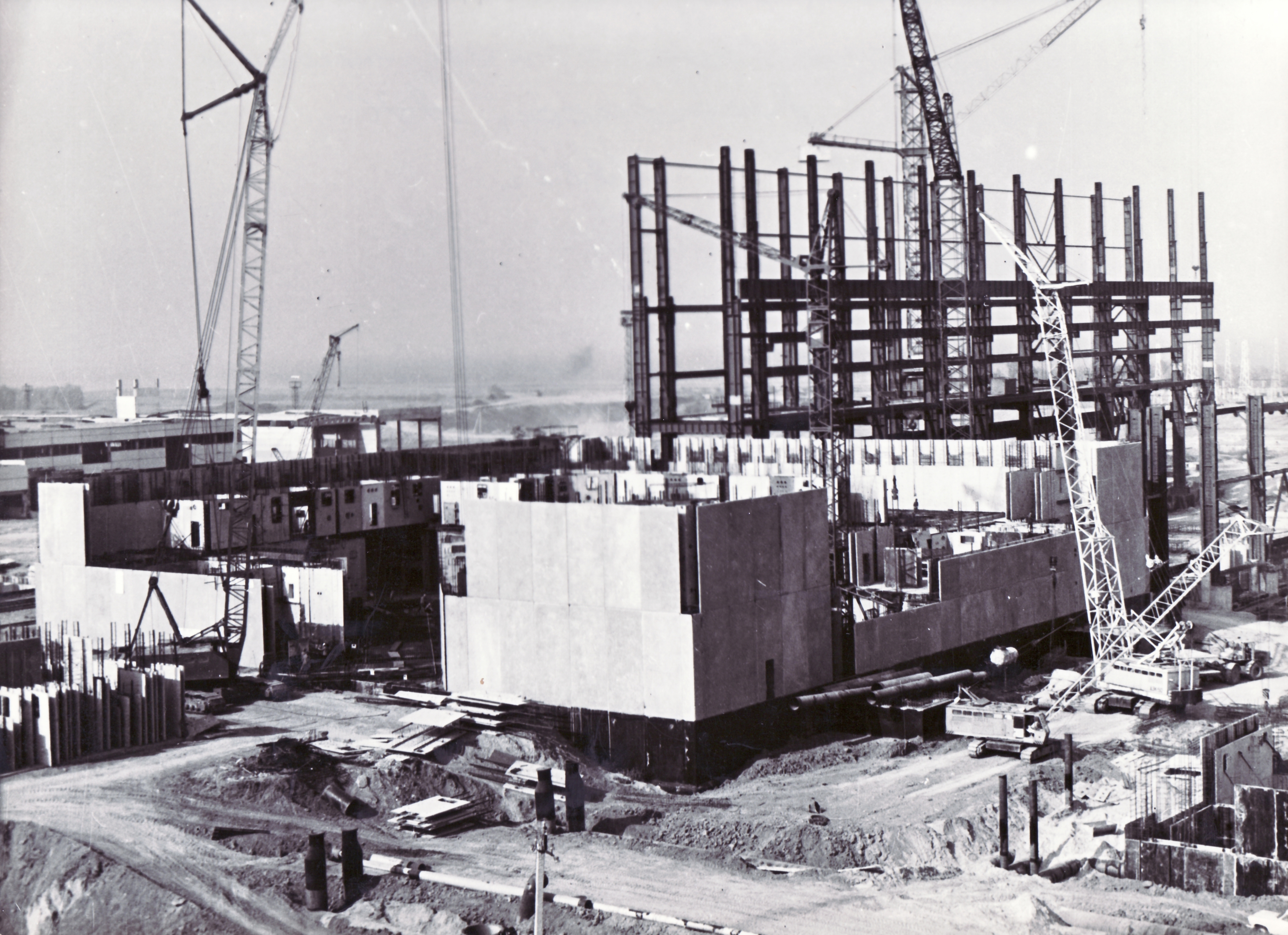 Unit one of the Rostov Nuclear Power Plant under construction.